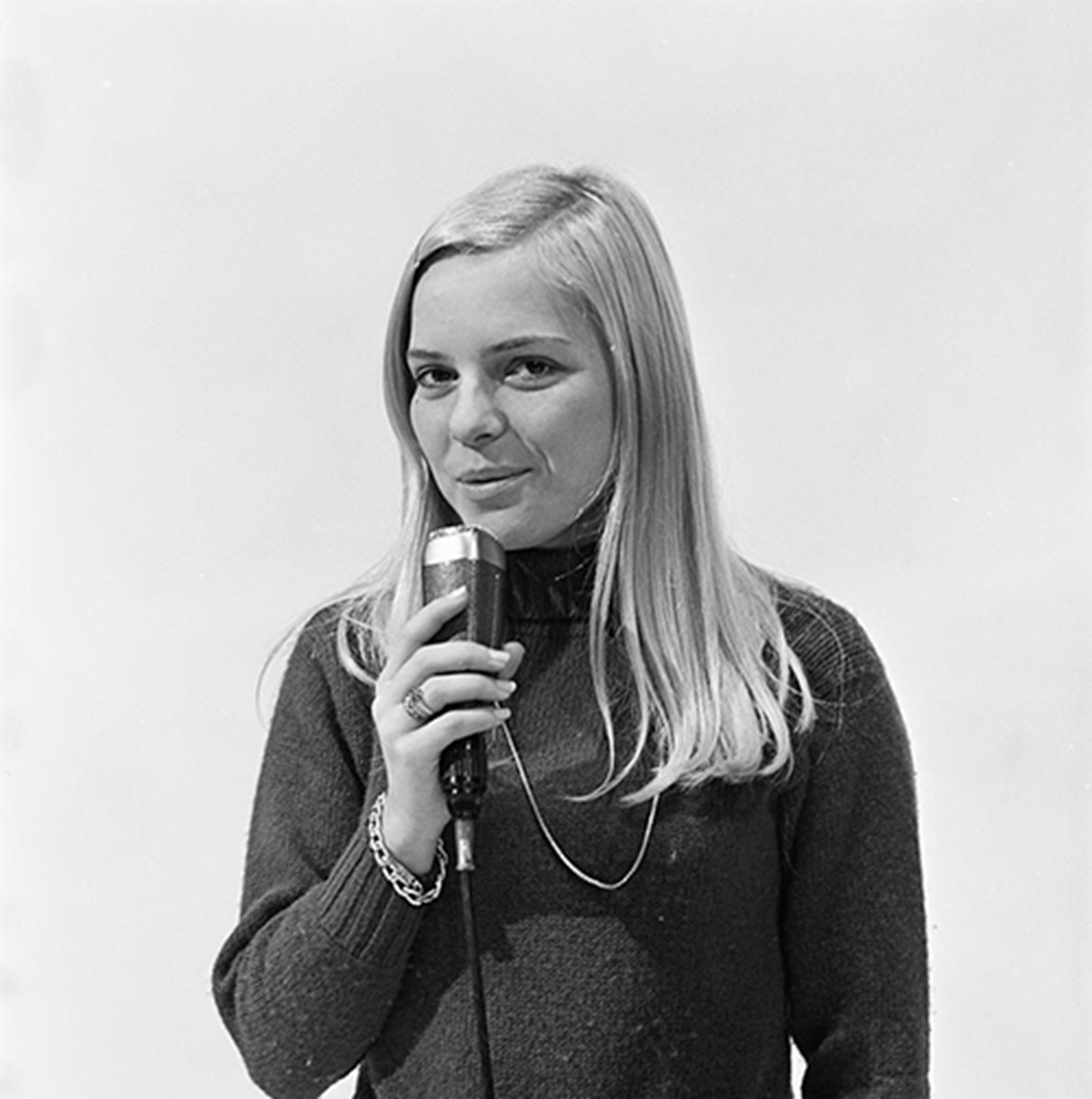 France Gall. Dutch TV programme Fenklup, 9 February 1968